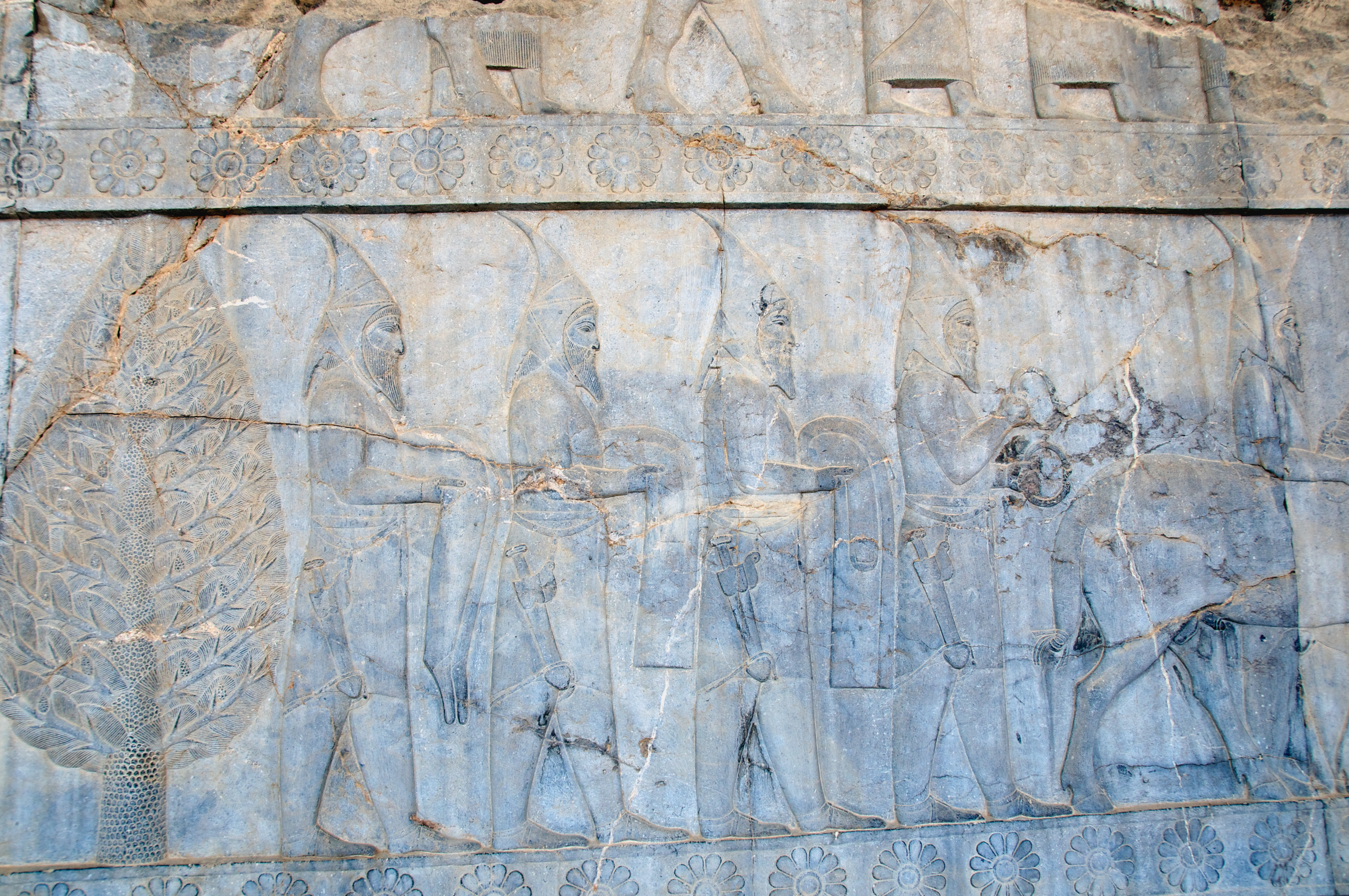 According to the Lonely Planet guide to Iran, "Most impressive of all, however, and among the most impressive historical sights in all of Iran, are the bas-reliefs of the Apadana Staircase on the eastern wall [of the Apadana Palace]." "The panels at the southern end [of the Apadana Staircase] are the most interesting, showing 23 delegations bringing their tributes to the Achaemenid king." "This rich record of the nations of the time ranges from the Ethiopians in the bottom left center, through a climbing pantheon of, among other peoples, Arabs, Thracians, Indians, Parthians and Cappadocians, up to the Elamites and Medians at the top right." According to Donald N. Wilber's book Persepolis, The Archaeology of Parsa, Seat of the Persian Kings, the group depicted in this panel is "the Saka tigrakhauda (Pointed-hat Scythians). All are armed and wear the appropriate headgear. They are accompanied by a horse, and offer a bracelet and folded coats and trousers, apparently copies of their own costumes." Persepolis, Iran